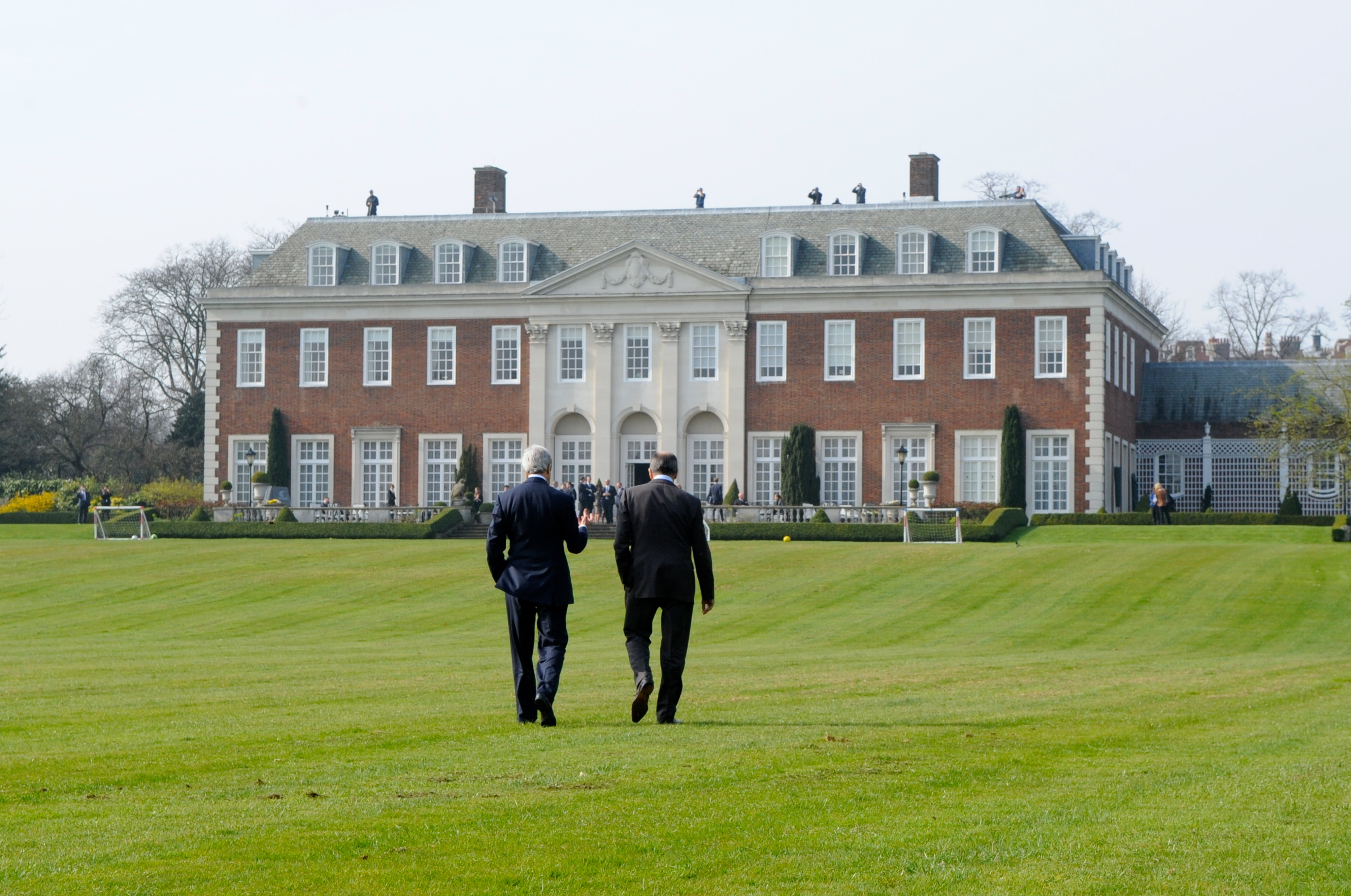 U.S. Secretary of State John Kerry and Russian Foreign Minister Sergey Lavrov walk across the lawn at Winfield House, the U.S. Ambassador's Residence in London, United Kingdom, on March 14, 2014, as they hold a one-on-one discussion about de-escalating tensions in Ukraine. [State Department photo/ Public Domain]